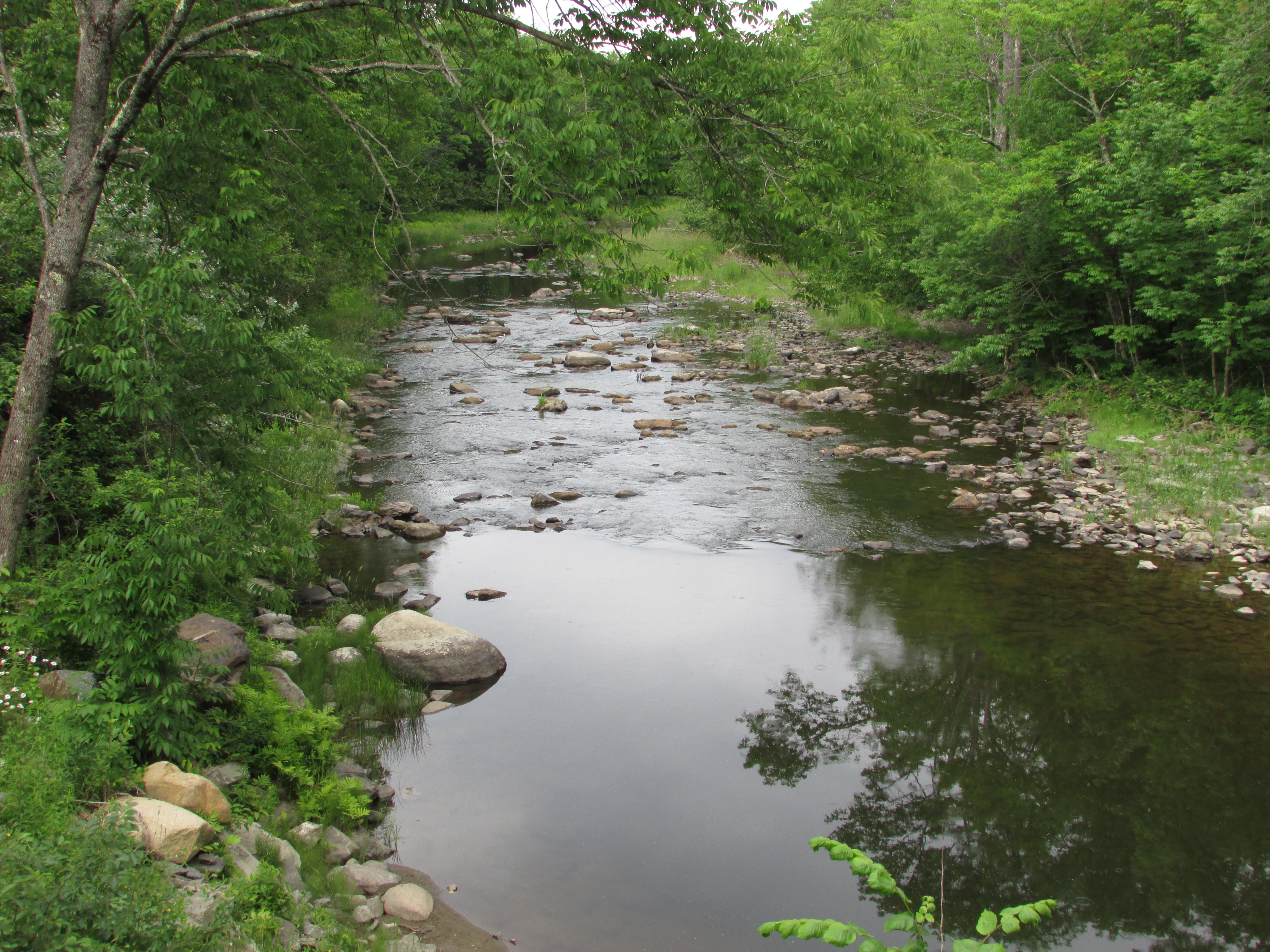 RobyVille Bridge crosses the Kenduskeag Stream in the town of Corinth, Maine. It is the oldest surviving example of a long truss covered bridge in the state.